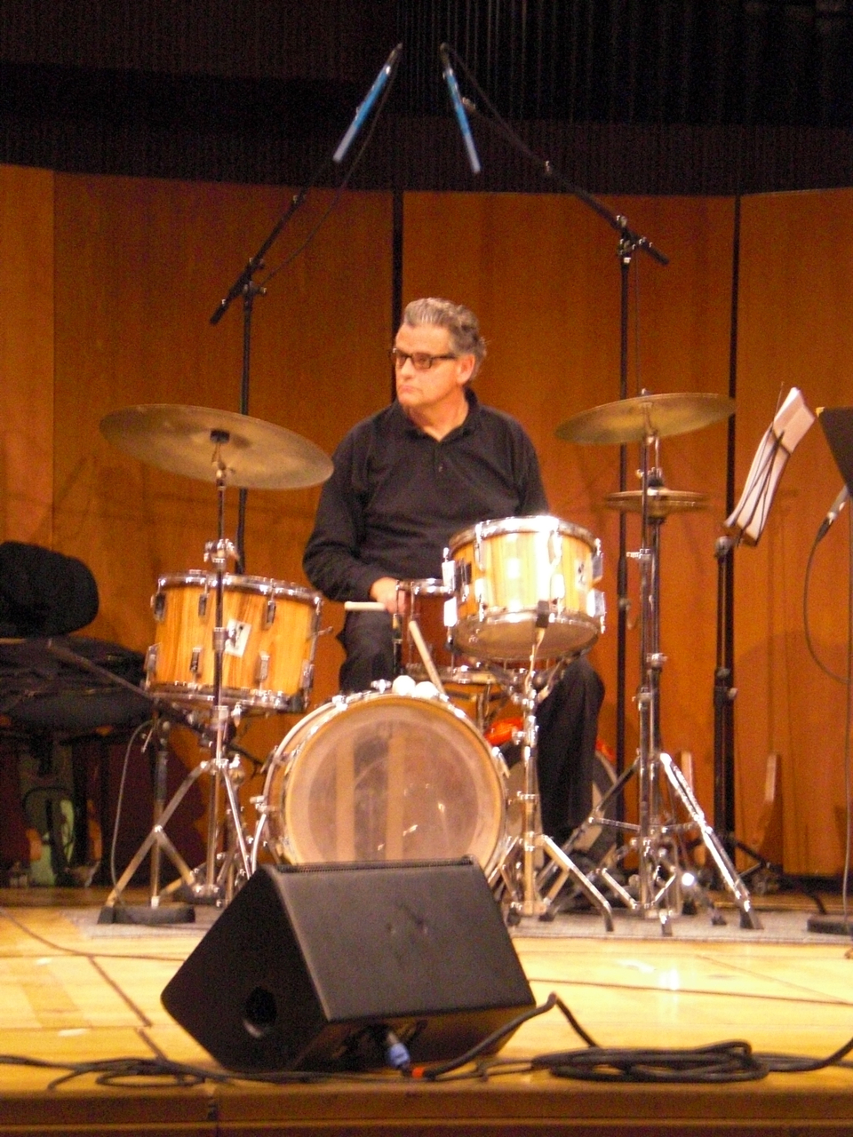 Frank Köllges in concert with Albrecht Maurer’s Protuberanza project during ’’Kölner Musiknacht’’ at WDR Großer Sendesaal in Cologne, Germany, September 19th, 2009